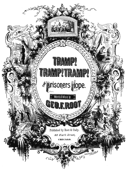 Cover of sheet music for "Tramp, Tramp, Tramp" words and music by George Frederick Root, Chicago: Root & Cady, 1864